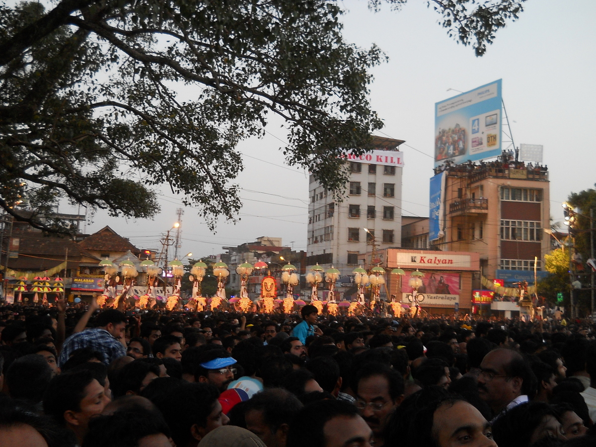 This media file is uploaded with Malayalam loves Wikimedia event - 2. പൂരക്കാഴ്ചകള്‍, തൃശ്ശൂര്‍ പൂരം 2011